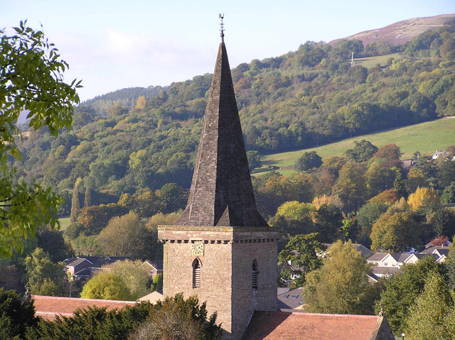 St Edmund's Church, Crickhowell. Built at the end of the 12th Century by Lady Sybil Pauncefote who inherited the Castle from her father, the Church of St Edmund in Crickhowell, was originally built to a cruciform design.